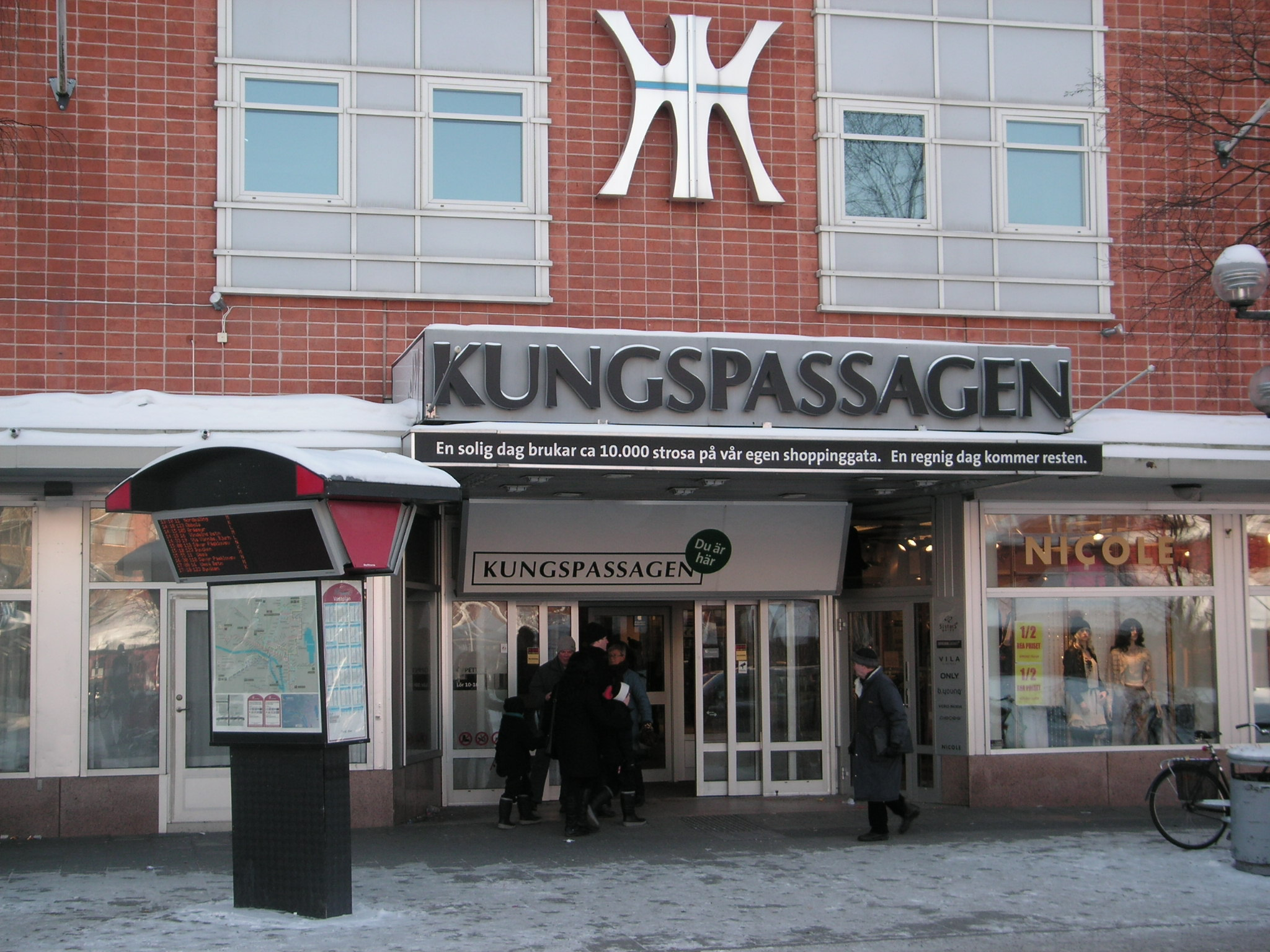 Shopping mall Kungspassagen in Umeå, Sweden.